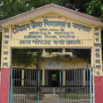 This is a photo of a institute.